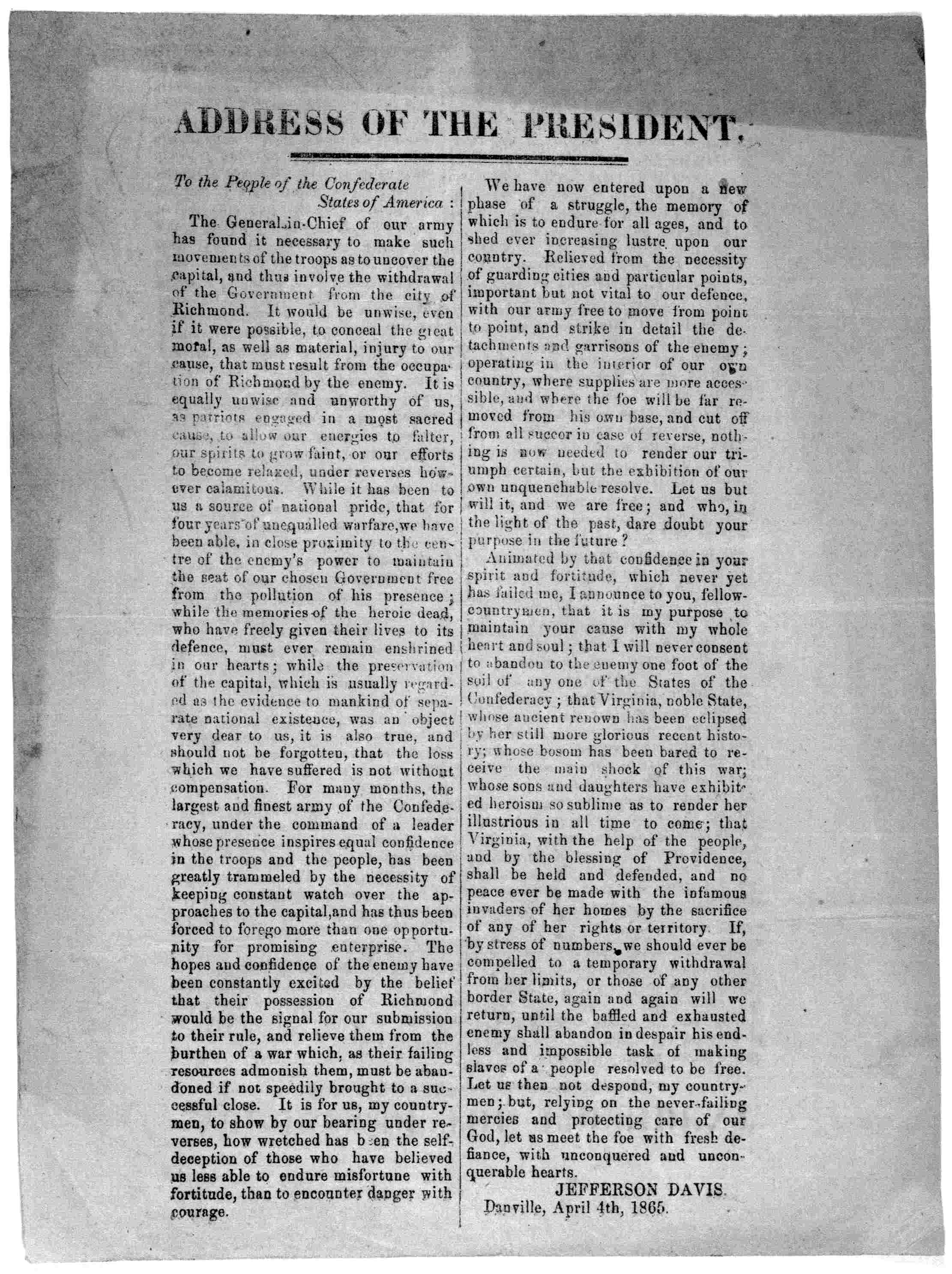 Photograph of broadside letter from Jefferson Davis, President of the Confederate States of America, announcing the fall of the Confederate capitol at Richmond to Union forces, and the subsequent move of the capitol of the Confederacy to Danville, Virginia.